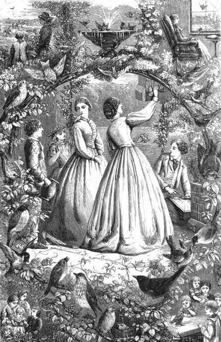 Birds of Song frontispiece from Favorite Song Birds (1851) by Henry Gardiner Adams.